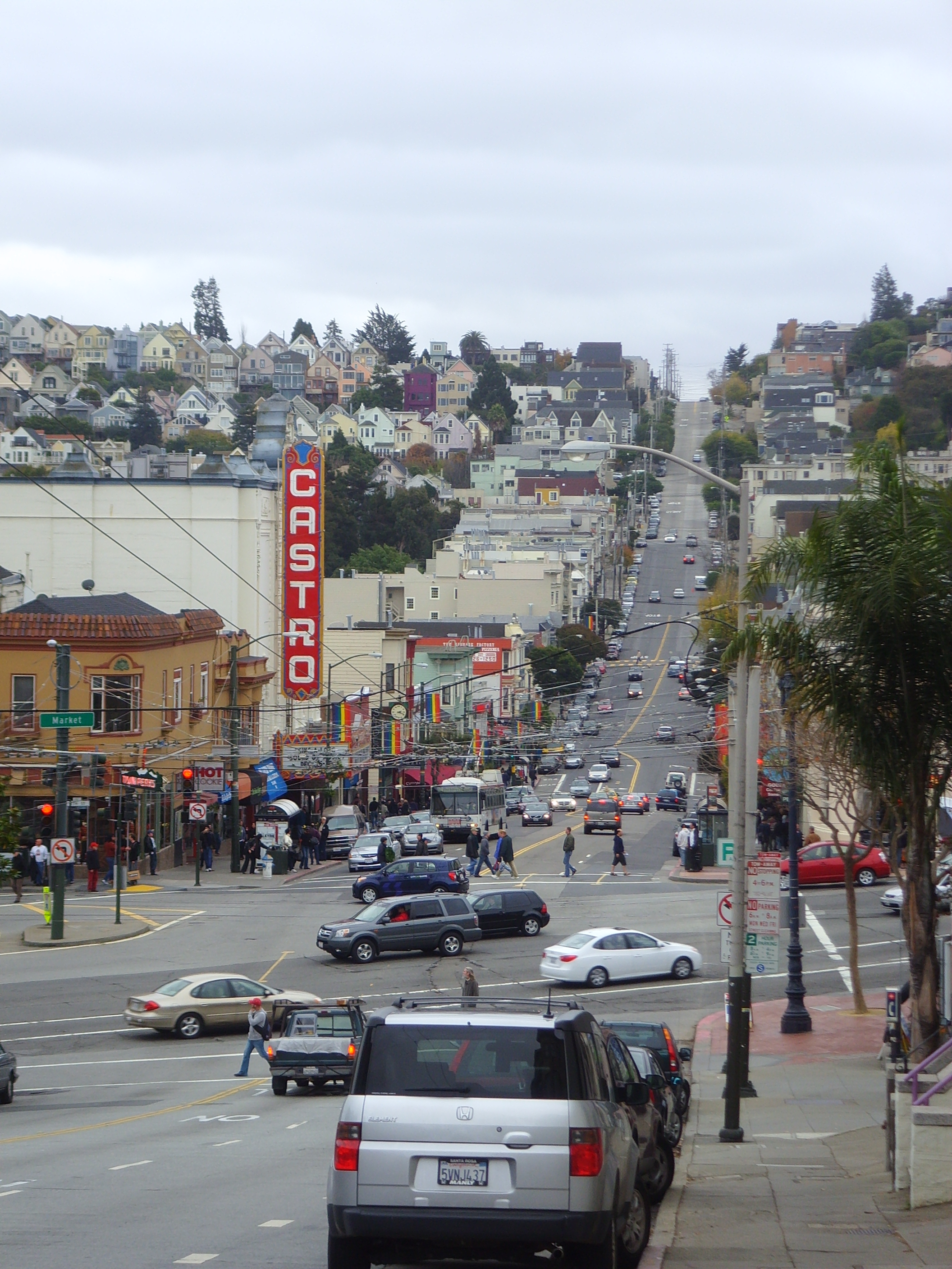 Photograph of Castro Street, San Francisco, CA showing the Castro Cinema.